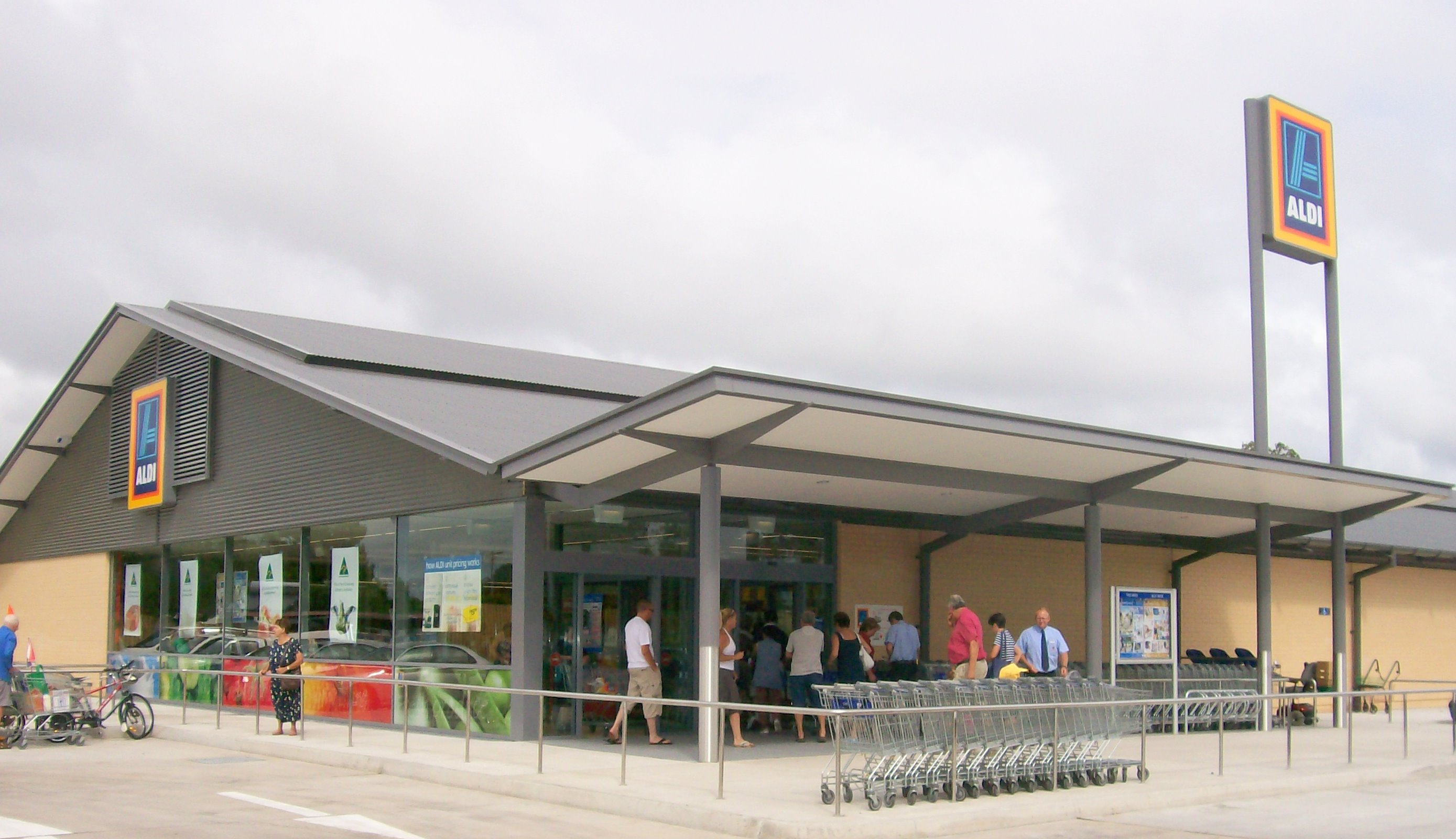 Aldi Store on opening day.